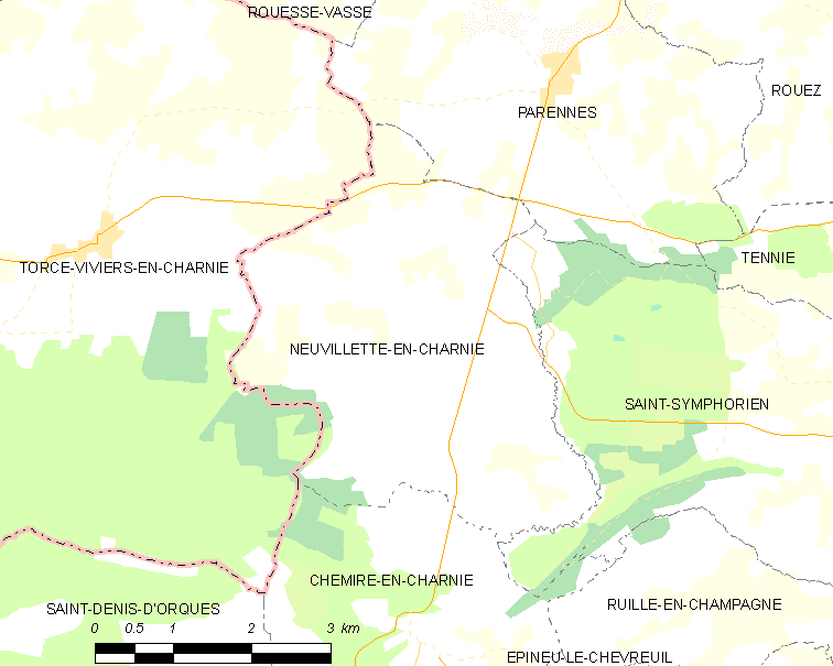 Map of French municipality